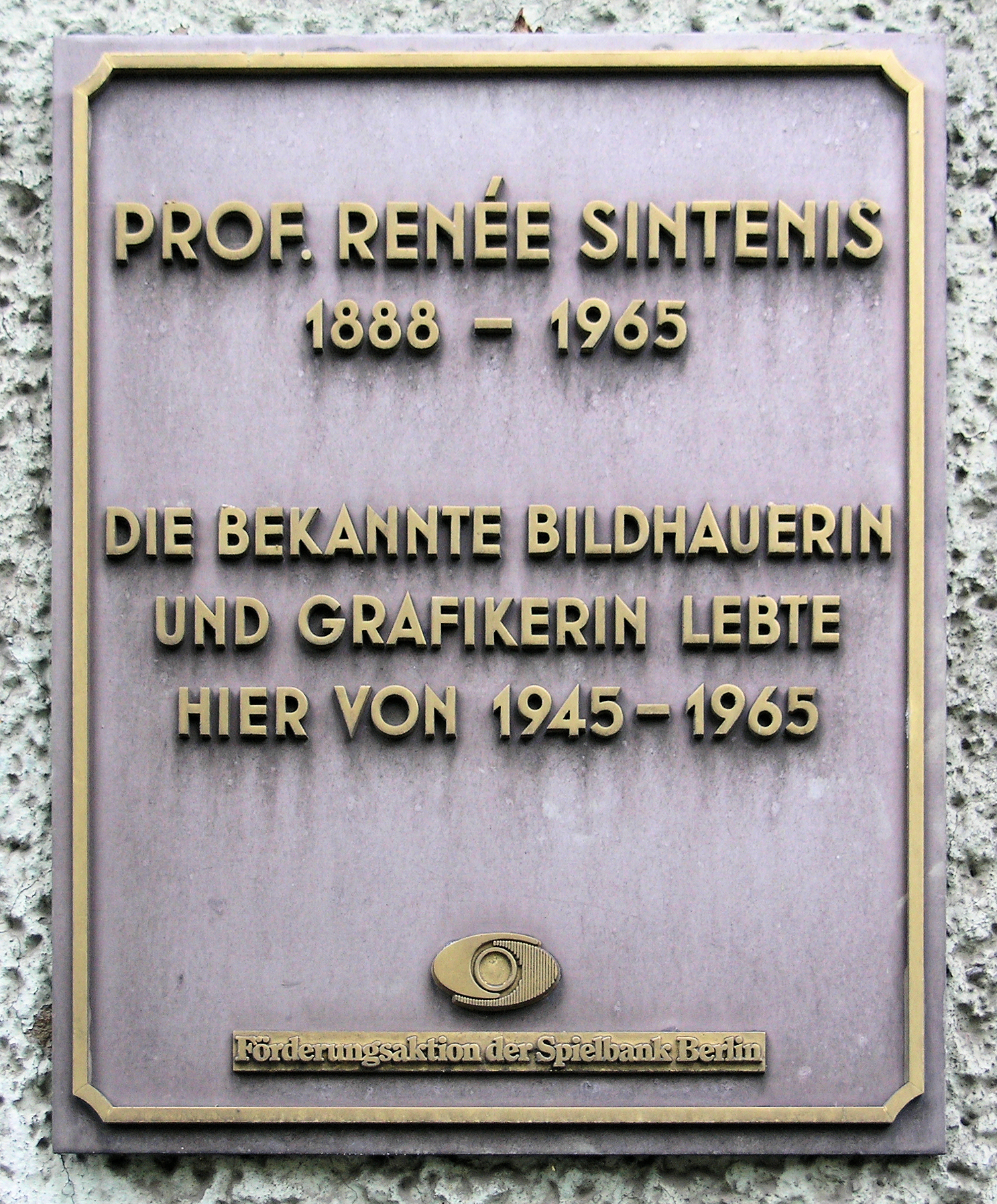 Memorial plaque, Renée Sintenis, Innsbrucker Straße 23, Berlin-Schöneberg, Germany Koordinate:52°28′51″N 13°20′33″E / 52.48083°N 13.3425°E